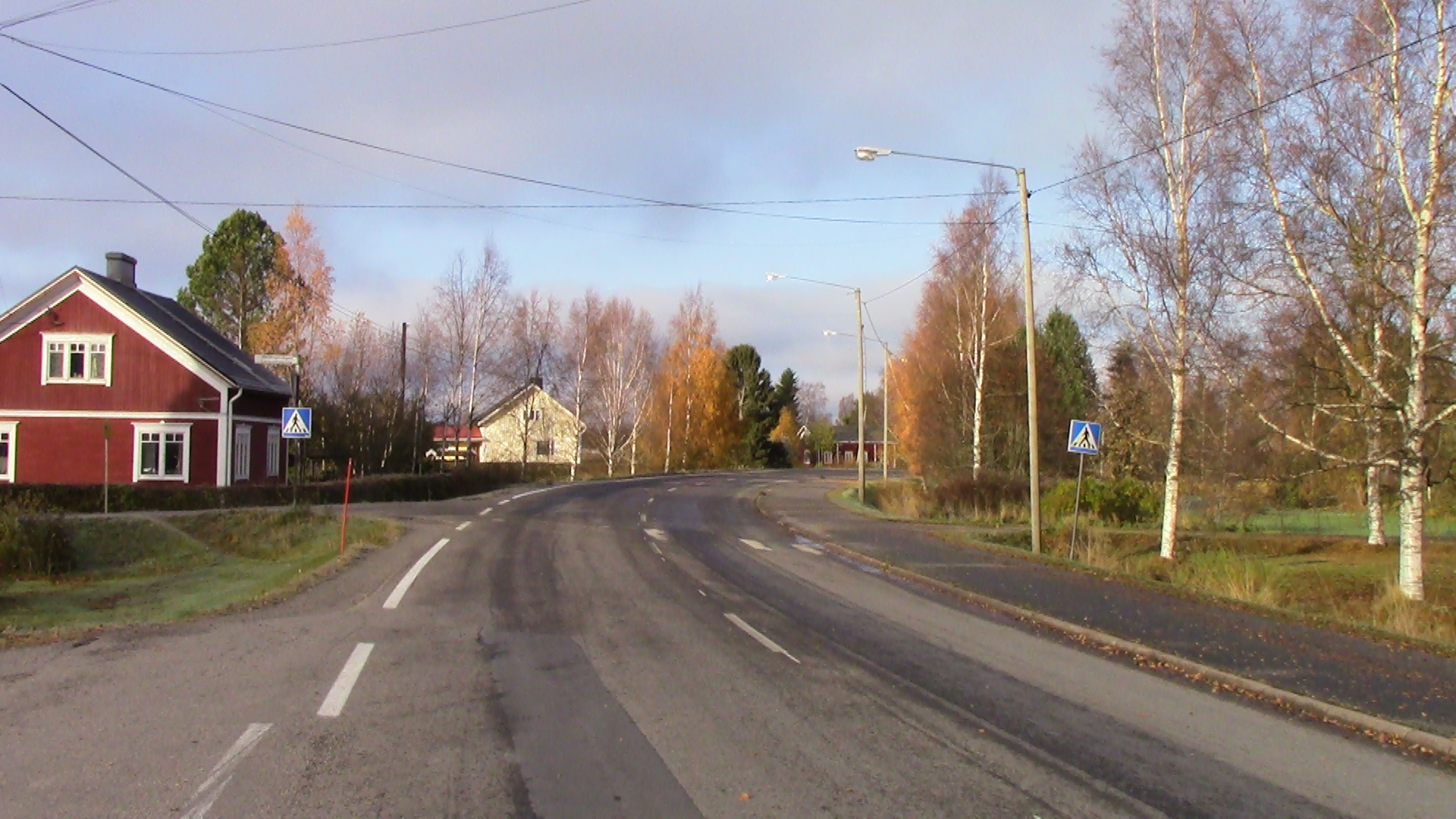 Lappfjärdsvägen seen towards west at Lappfjärd in Kristinestad in October 2017.